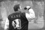 PKeliteBeats